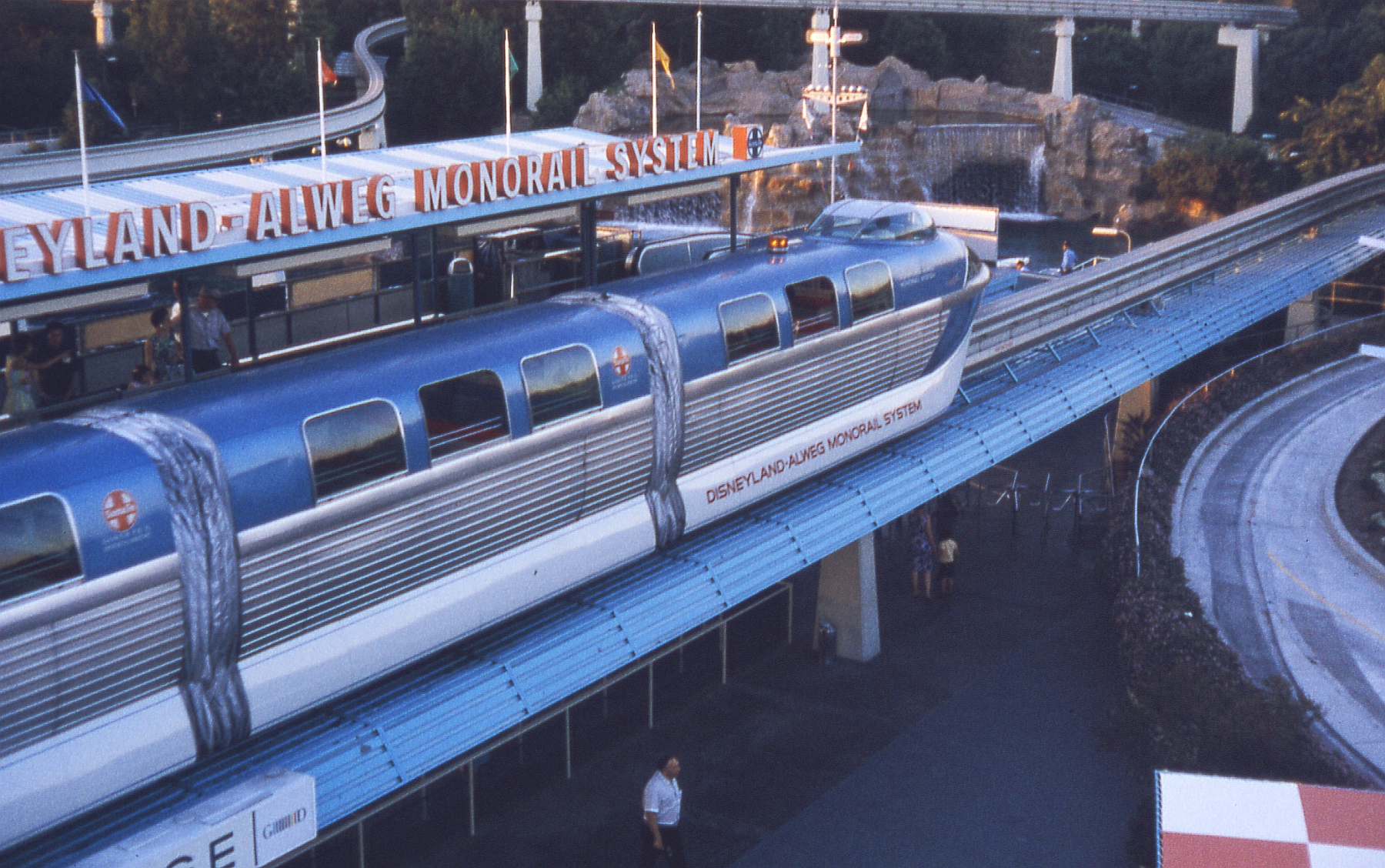 The Disneyland Monorail, stopped at Tomorrowland station, 1963